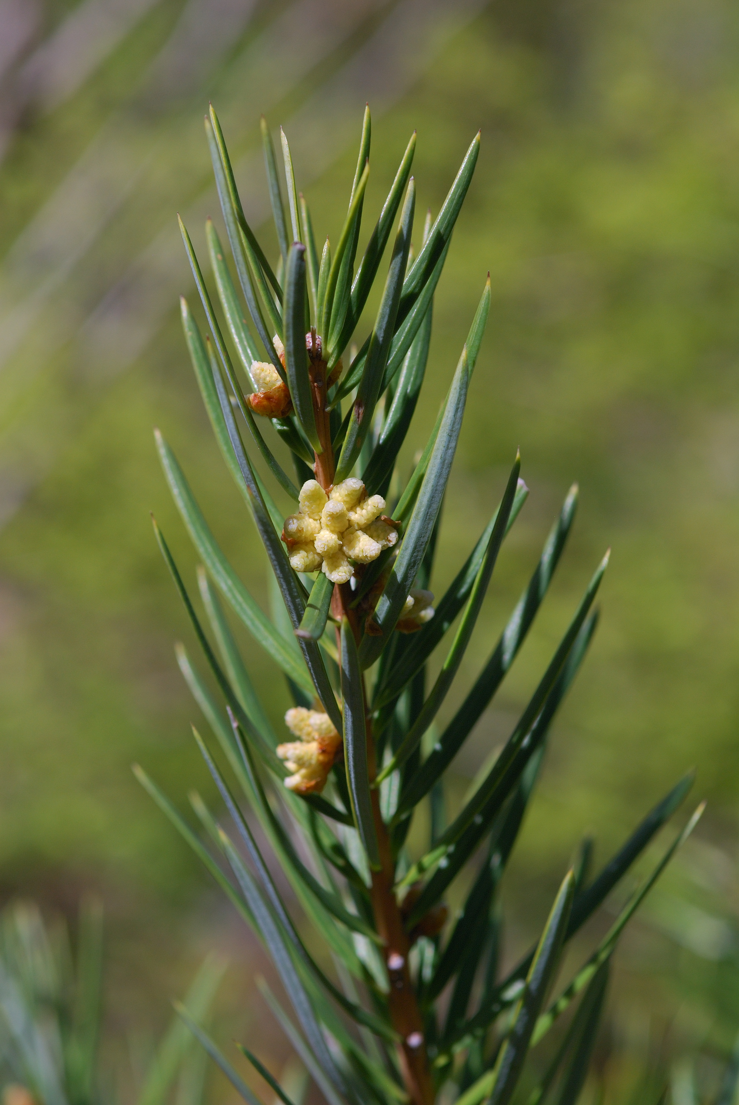 Keteleeria evelyniana foliage and pollen cones, photographed at the UC Berkeley Botanical Garden. Species from China, Laos, Vietnam.